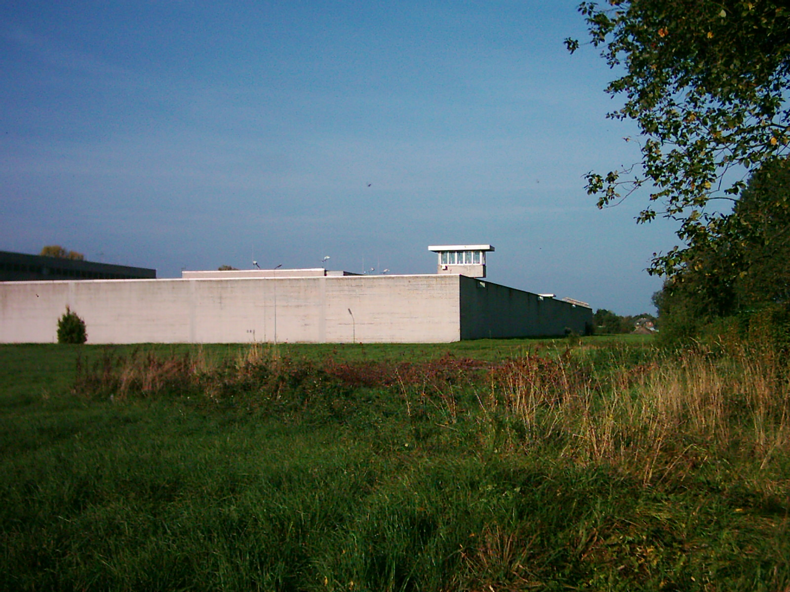 The former correctional facility in Hamburg-Neuengamme, Germany.